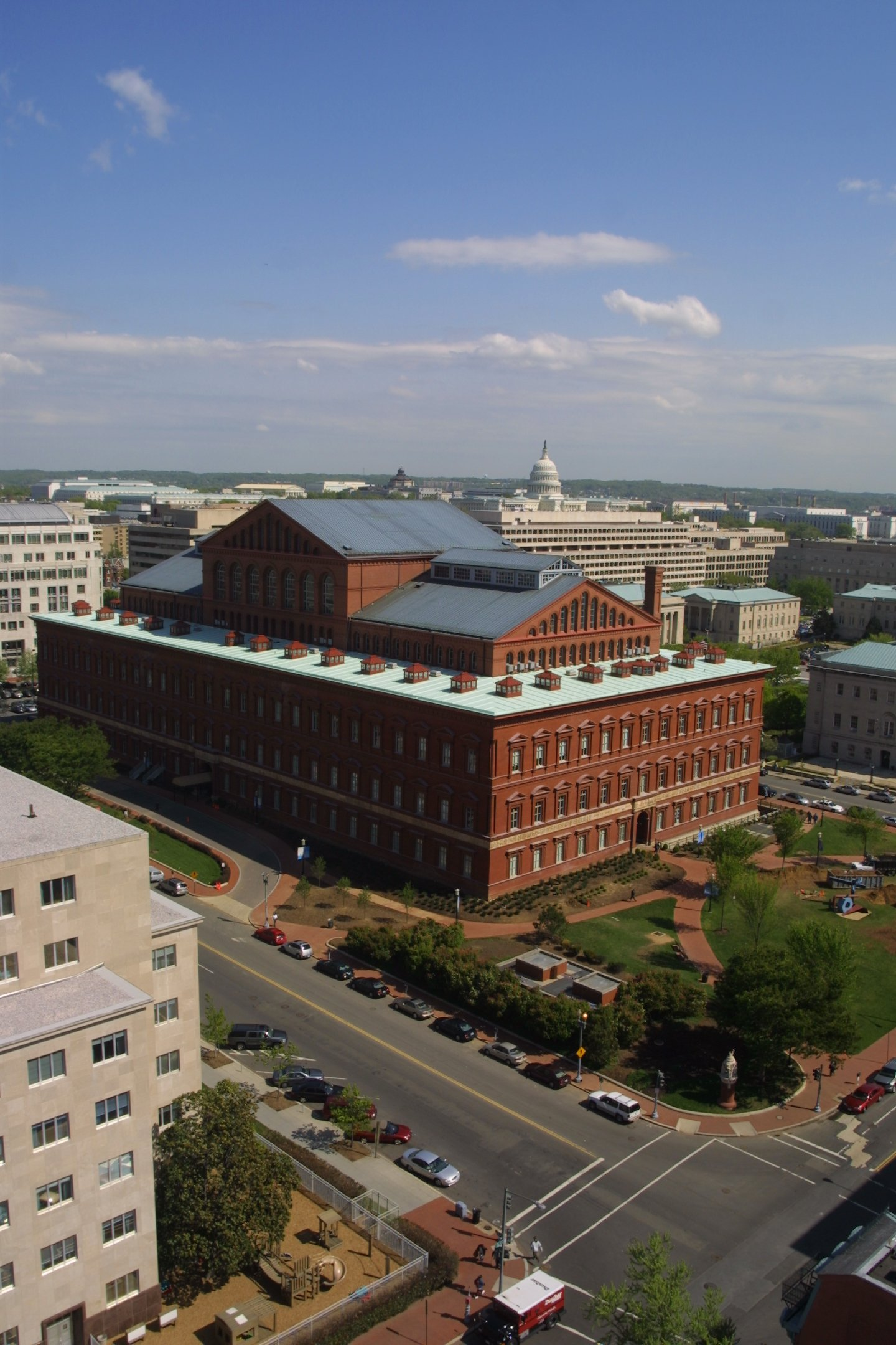 The National Building Museum with the U.S. Capitol behind it.